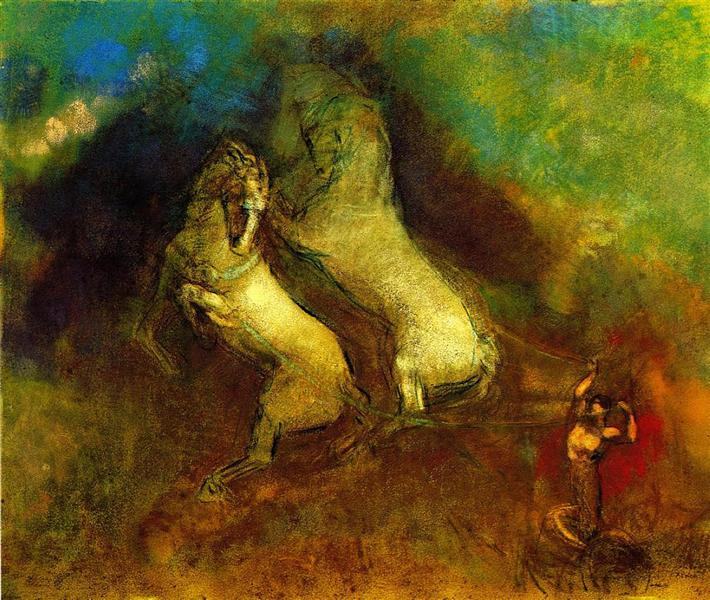 Redon, Apollo's chariot, 1905-1912, Stedelijk Museum Amsterdam (Netherlands - Amsterdam), 48 x 58 cm. Drawing - pastel